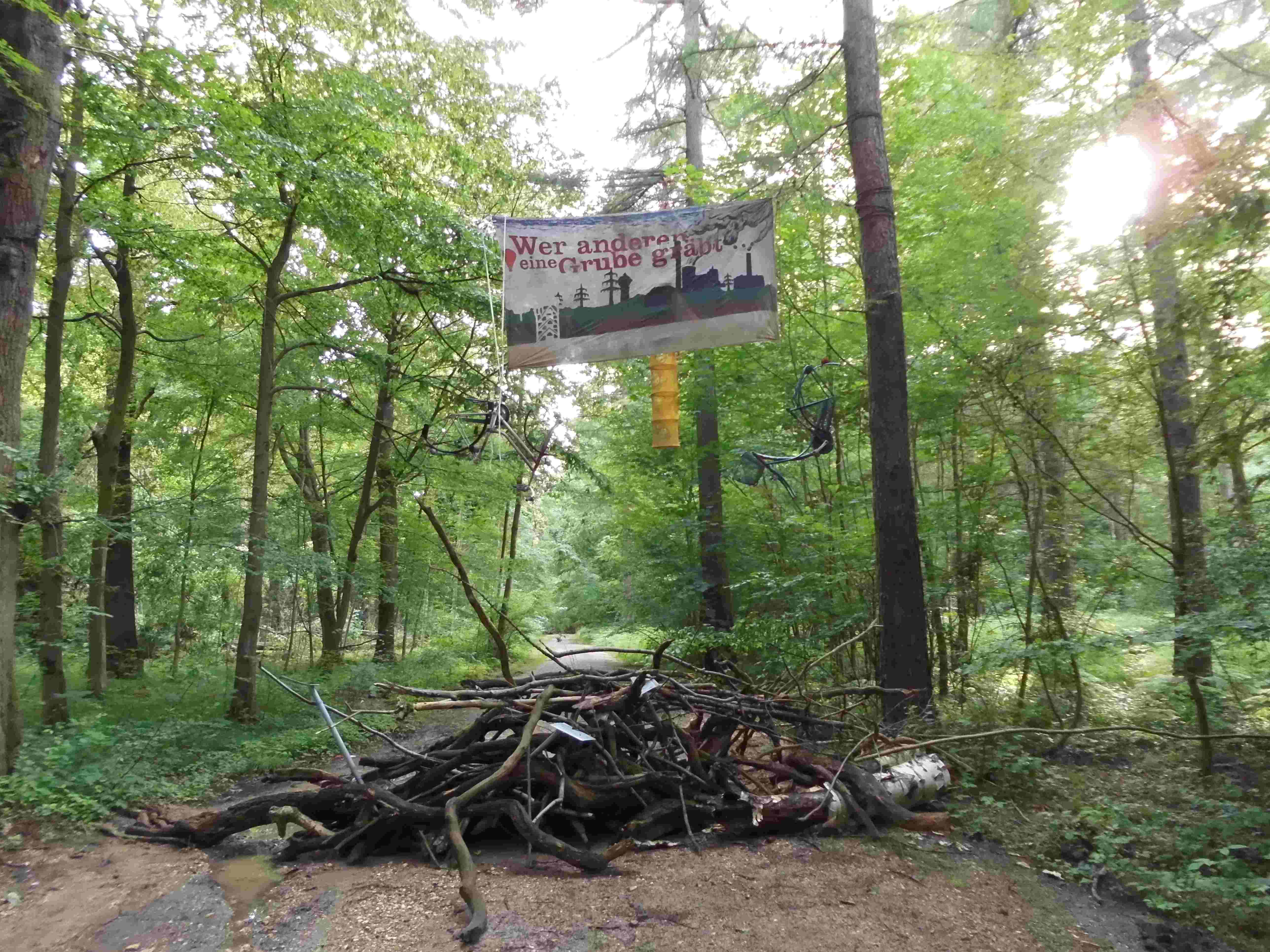 Nature reinforces the barricades of Hambacher Forest which were rebuild the next day after being cleared in April, with 2 out of the 3 large fallen trees falling right on aready existing barricades